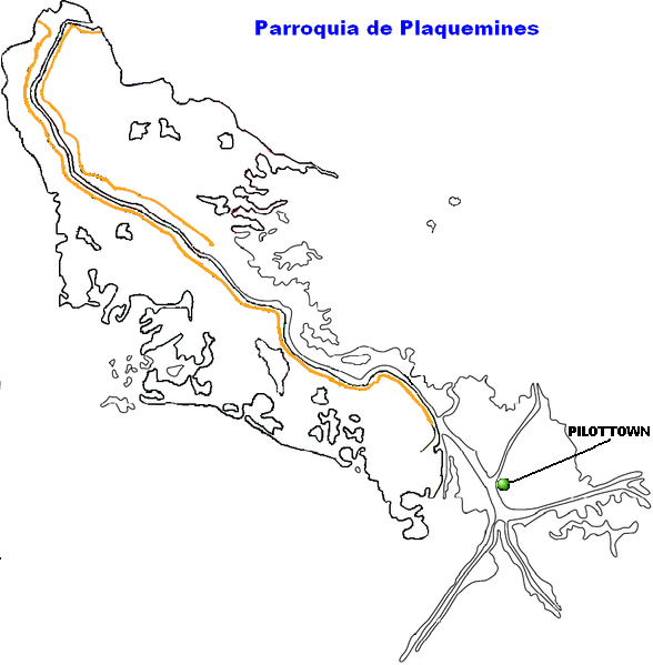 Pilottown in Plaquemines